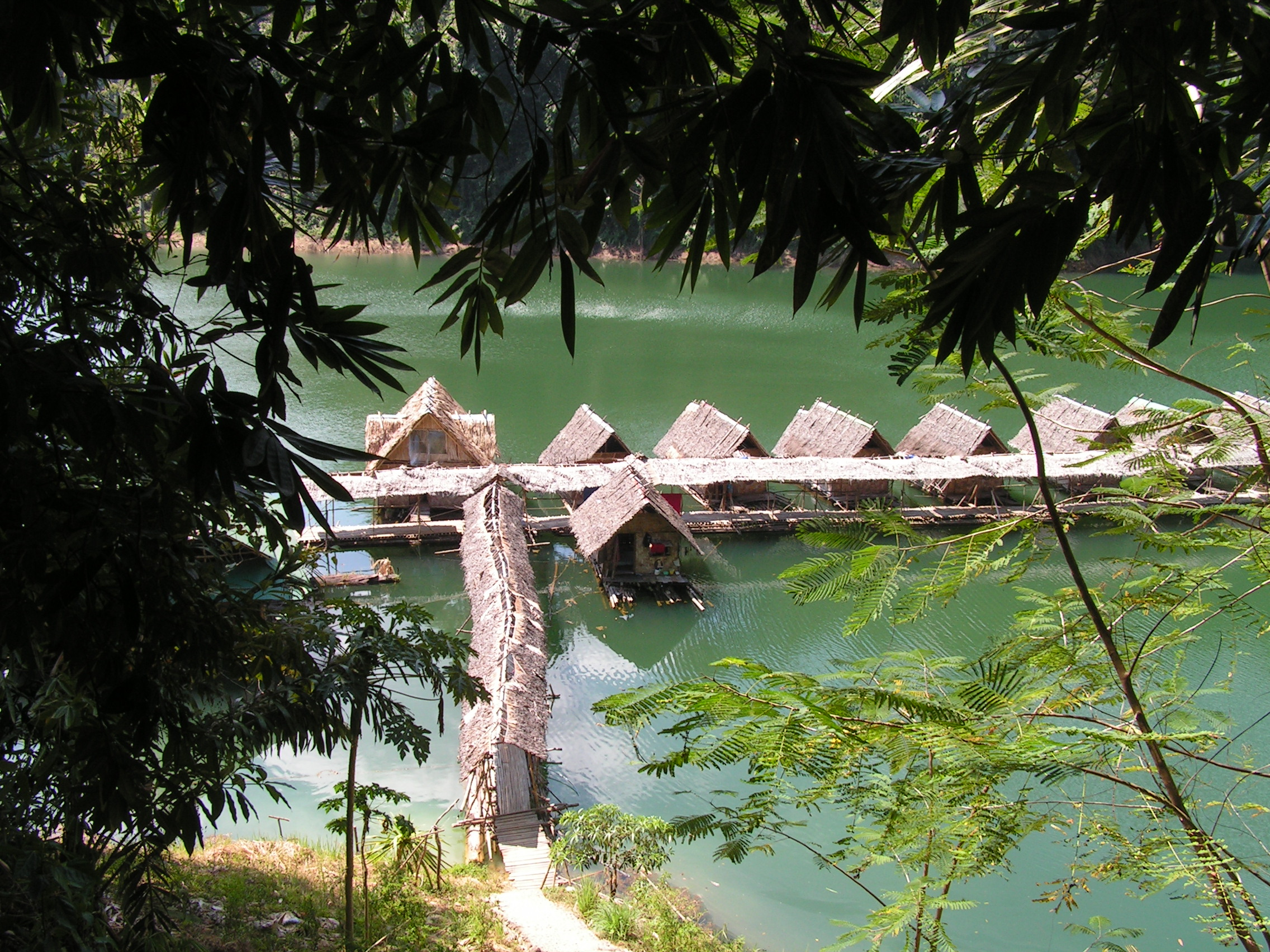 Floating_Huts, Khao Sok National ParkFloating Huts